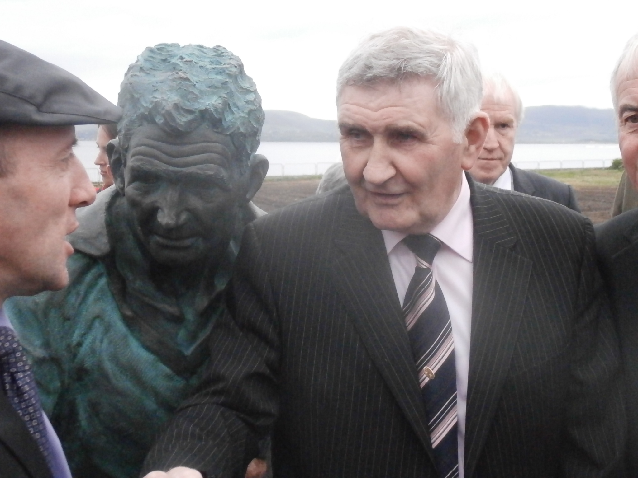 Mick O'Dwyer is congratulated by Deputy Michael Healy Rae, as Minister Jimmy Deenihan - a former great player under his stewardship-steps back. Minister Jimmy Deenihan had just unveiled his statue before an extraordinary audience that stretched from the Lodge to the Butler Arms. Mick O'Dwyer has long been a legend in Waterville, in Kerry and in Ireland. A National Treasure!!